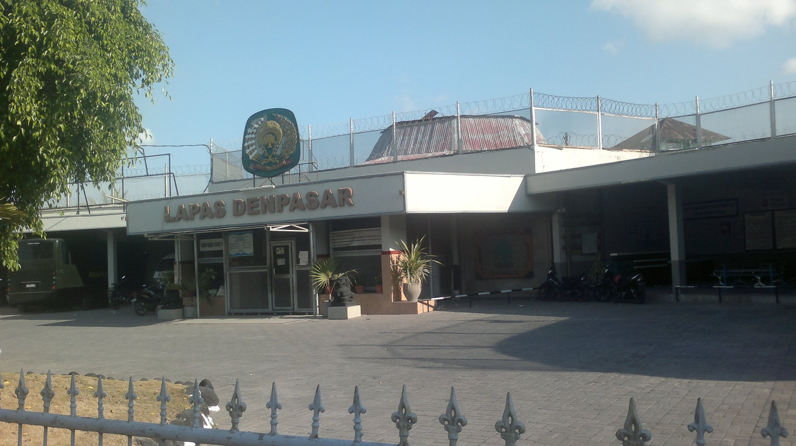 Kerobokan Prison in Bali, where drug smuggler Shapelle Corby was sent after her conviction